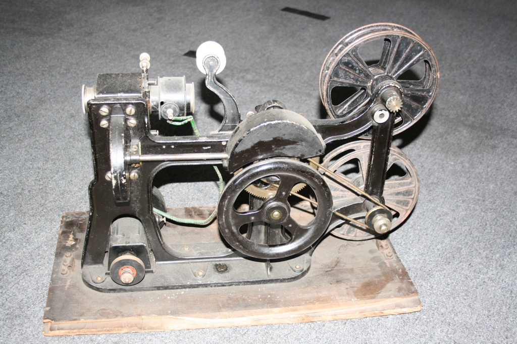 1912 Pathé KOK 28mm film projector. Own generator /dynamo to poer lamp. Used safety film.